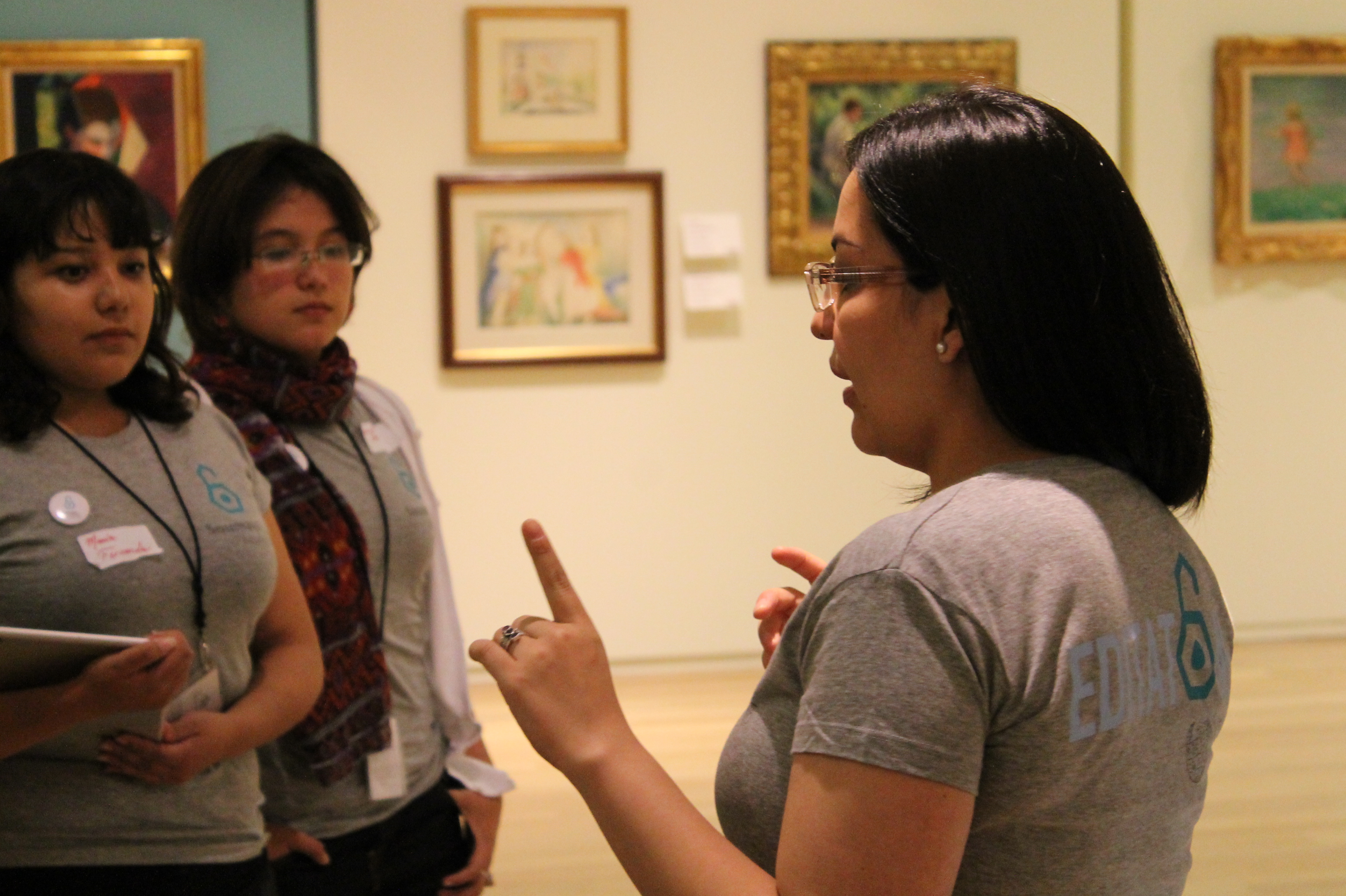 Night guided tour to wikipedians. The Open Soumaya Editathon 50 hours of art was an event with the objective of edit Wikipedia for 50 continuous hours on the artists and collections that preserves the Soumaya Museum.